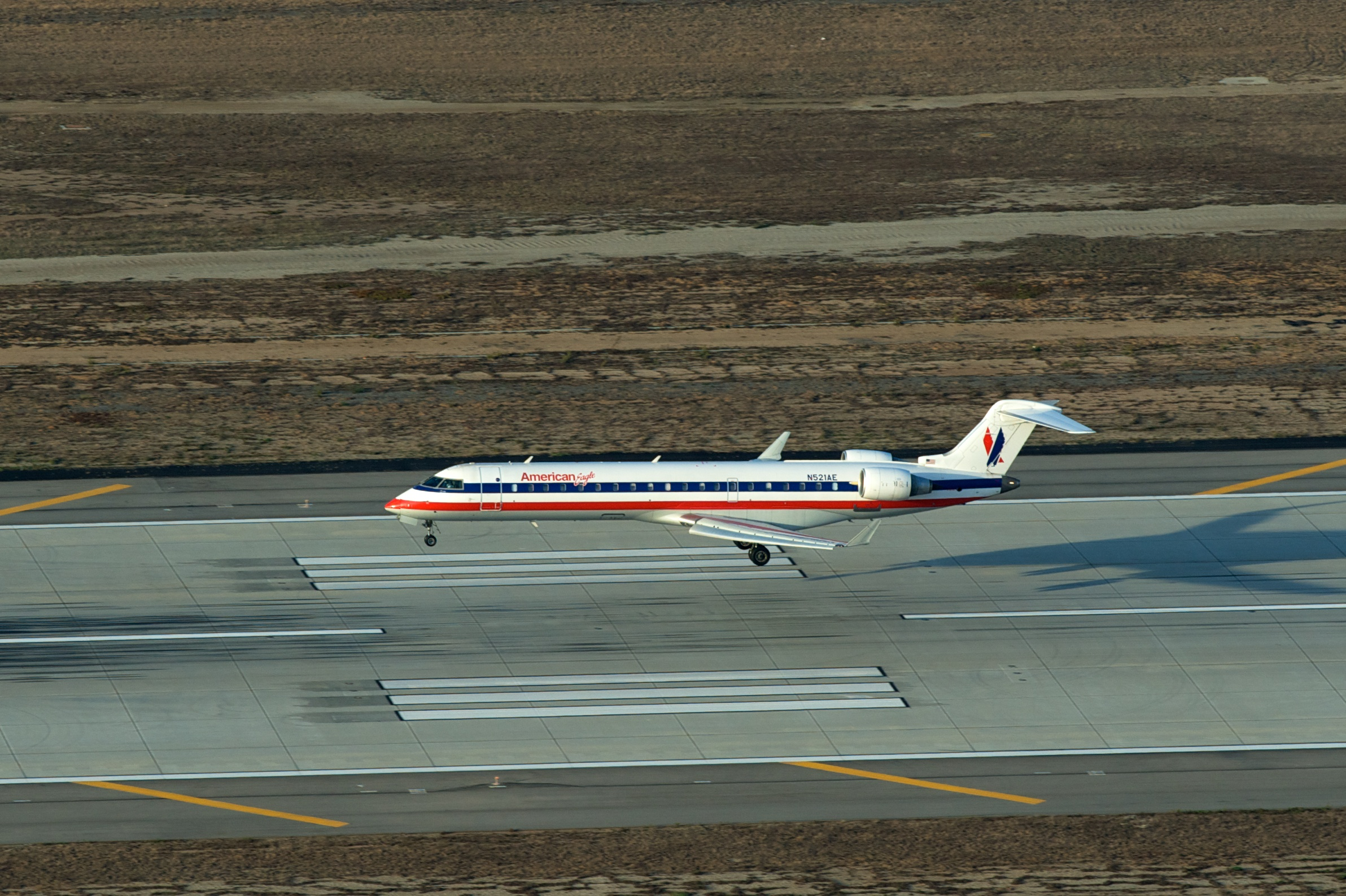 American Eagle CRJ-700 N521AE landing LAX